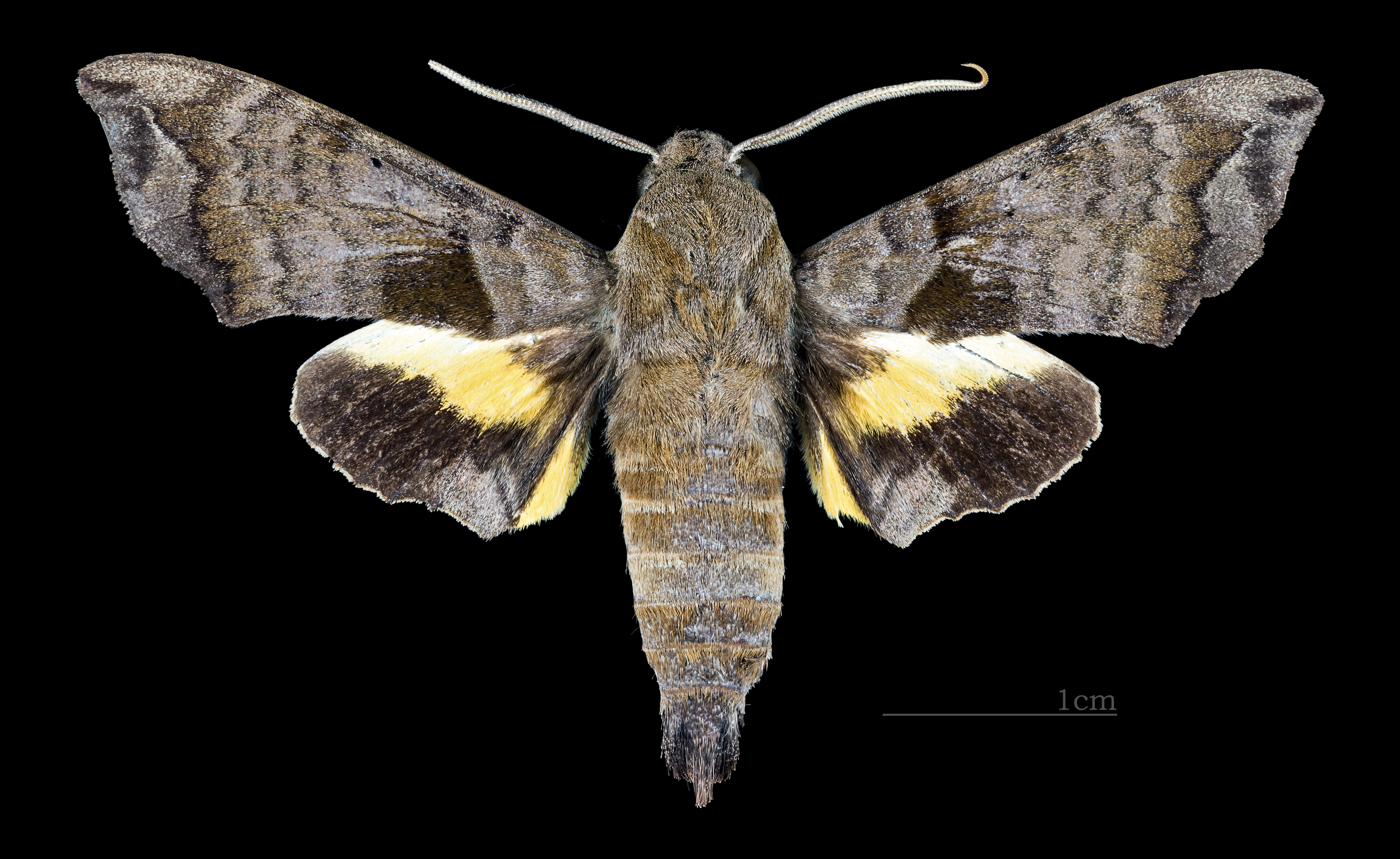 Perigonia ilus - Dorsal side Collection of the Mathematician Laurent Schwartz